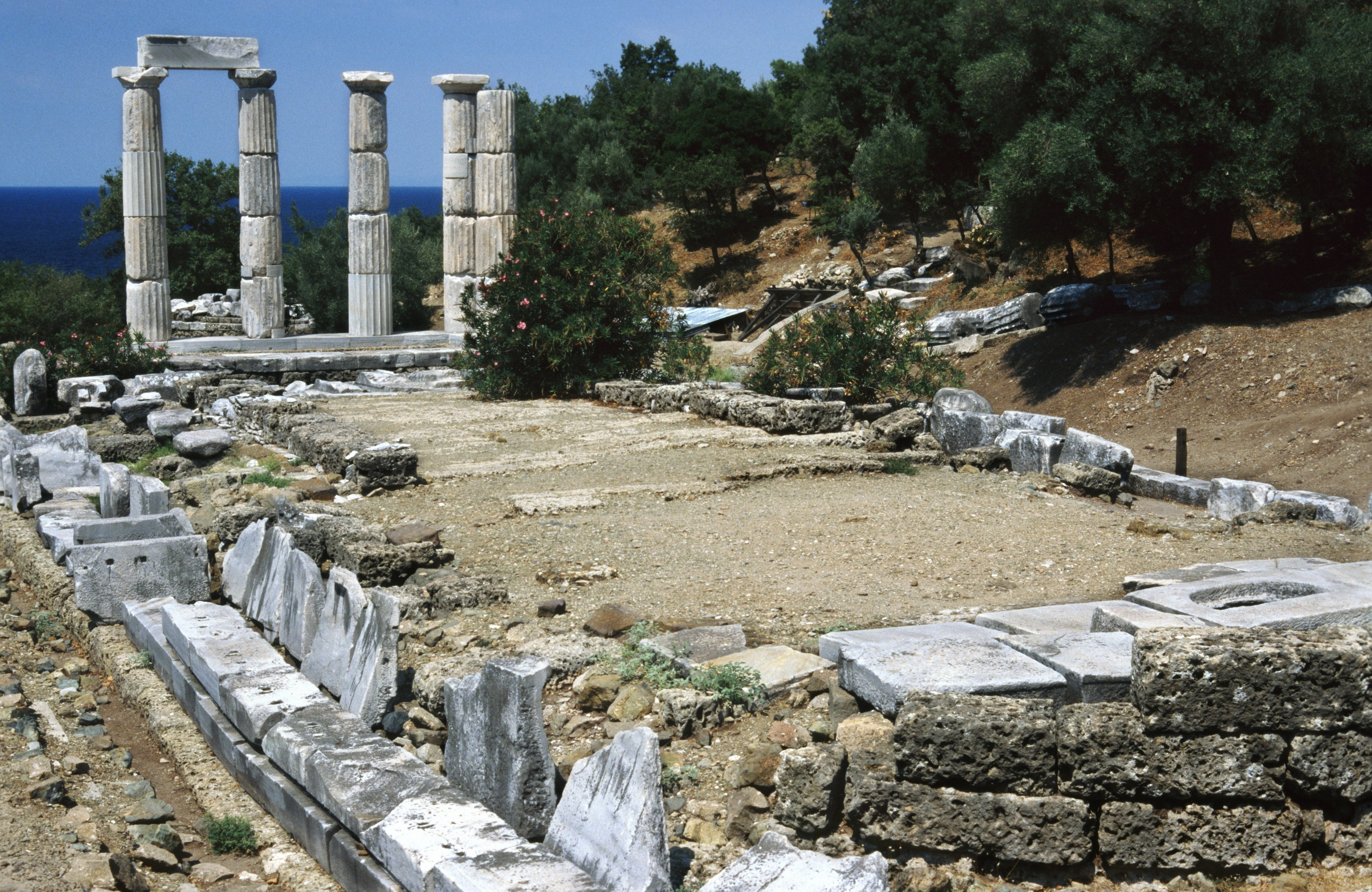 Sanctuary of the Great Gods, Palaiopolis, Samothrace island, Thrace, Greece.